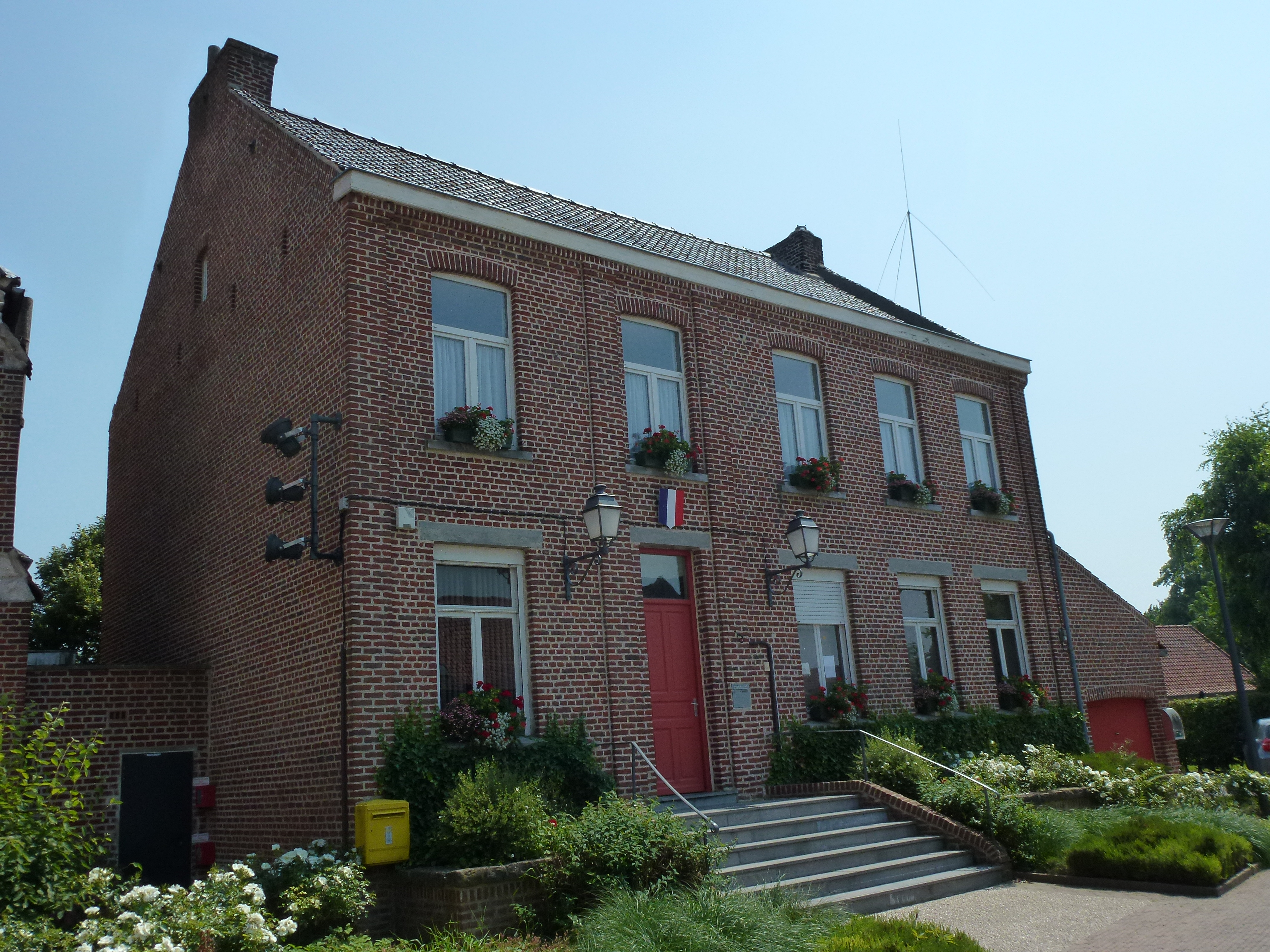 La Neuville (Nord, Fr) mairie